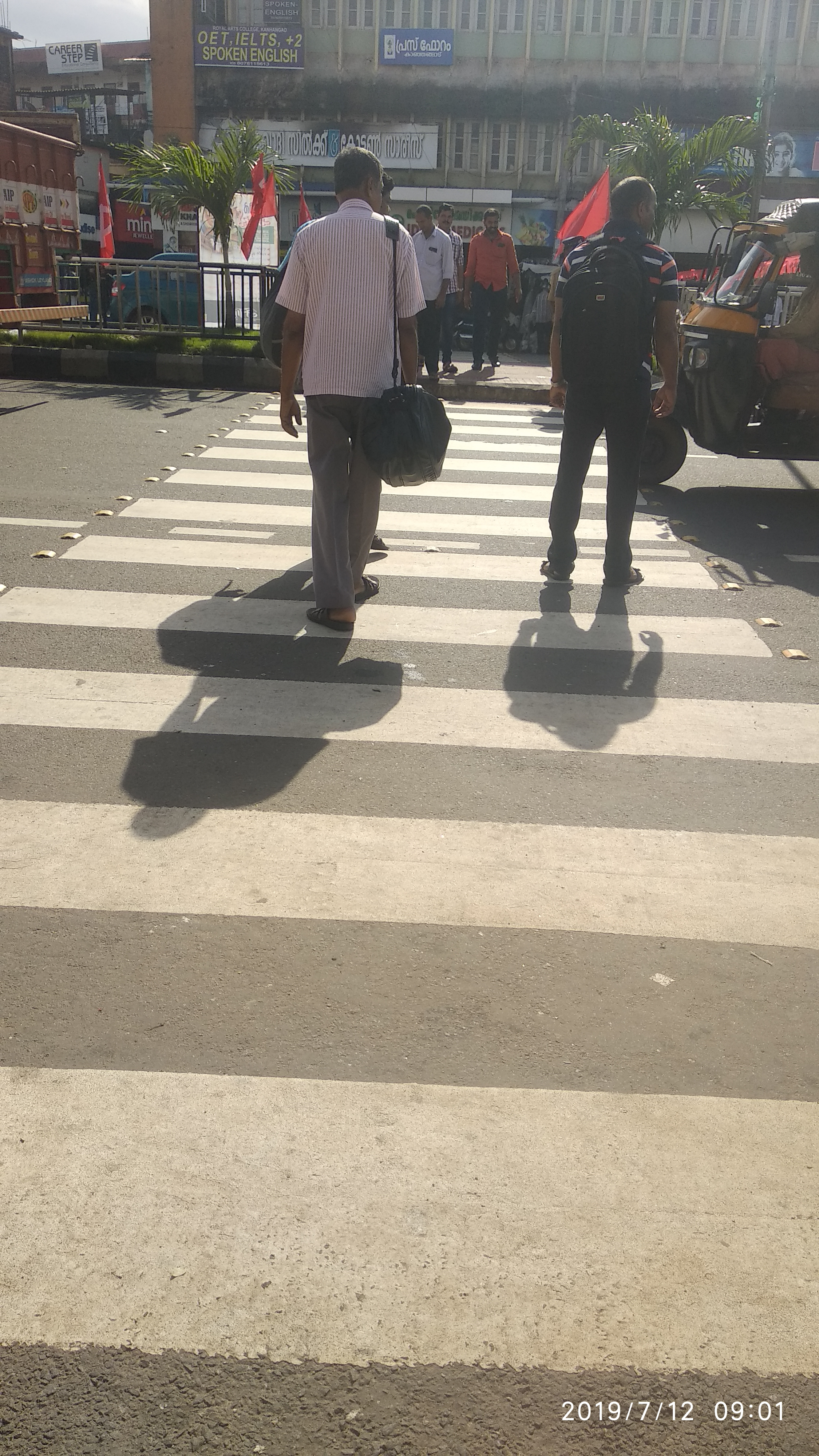 Zebra crossing line at kanhangad